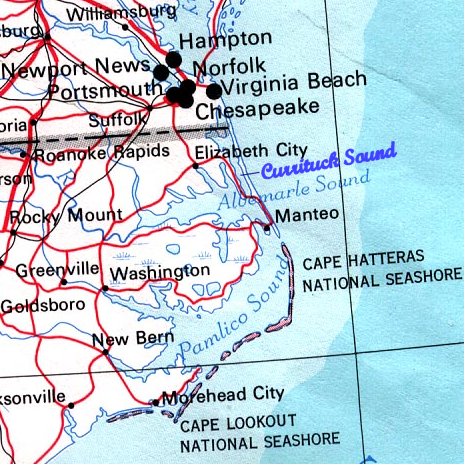 Annotated extract from North Carolina Road Map original scale 1:6,000,000 U.S.Geological Survey, 1975